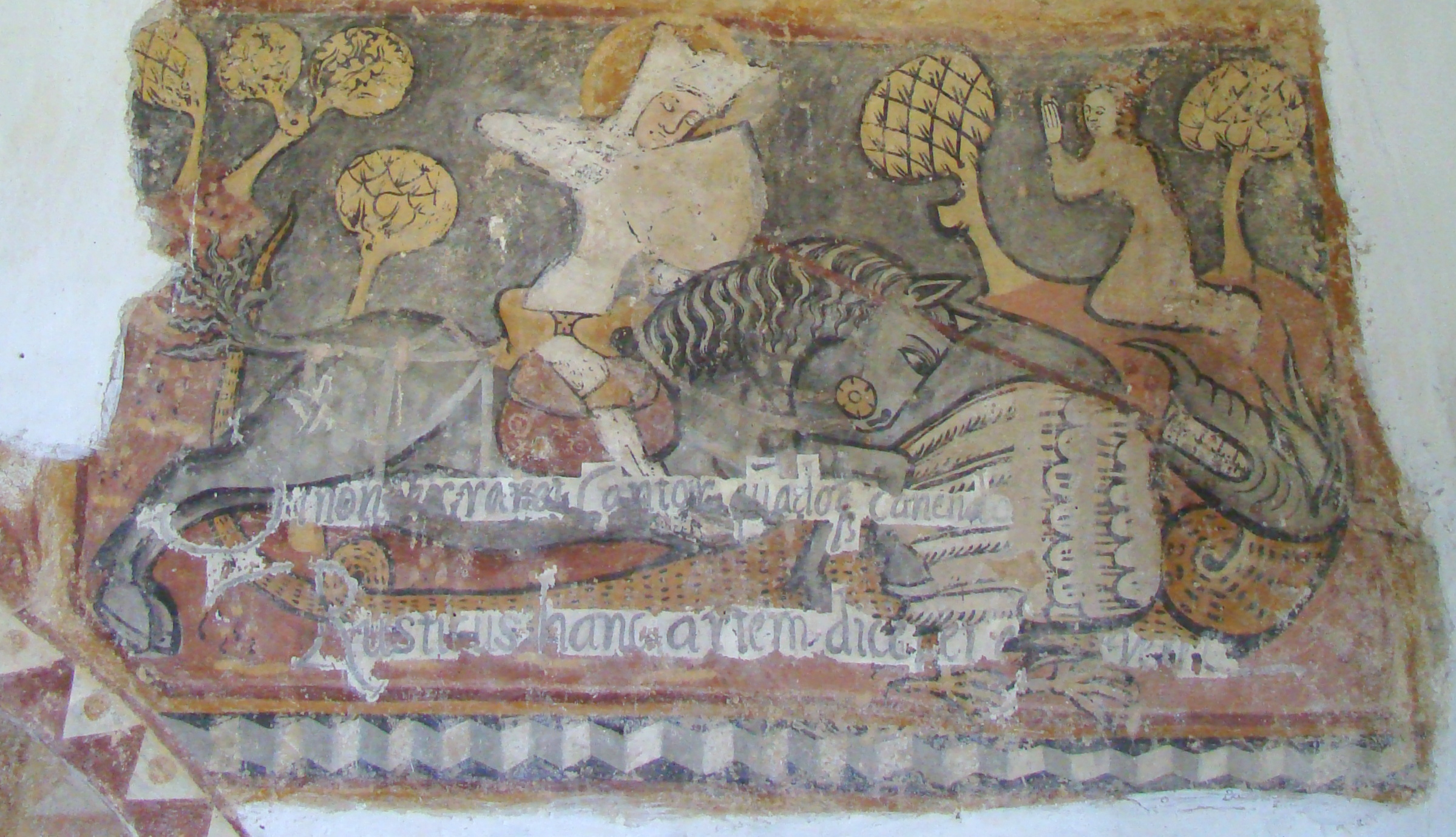 Reformed church in Alma, Sibiu county, Romania